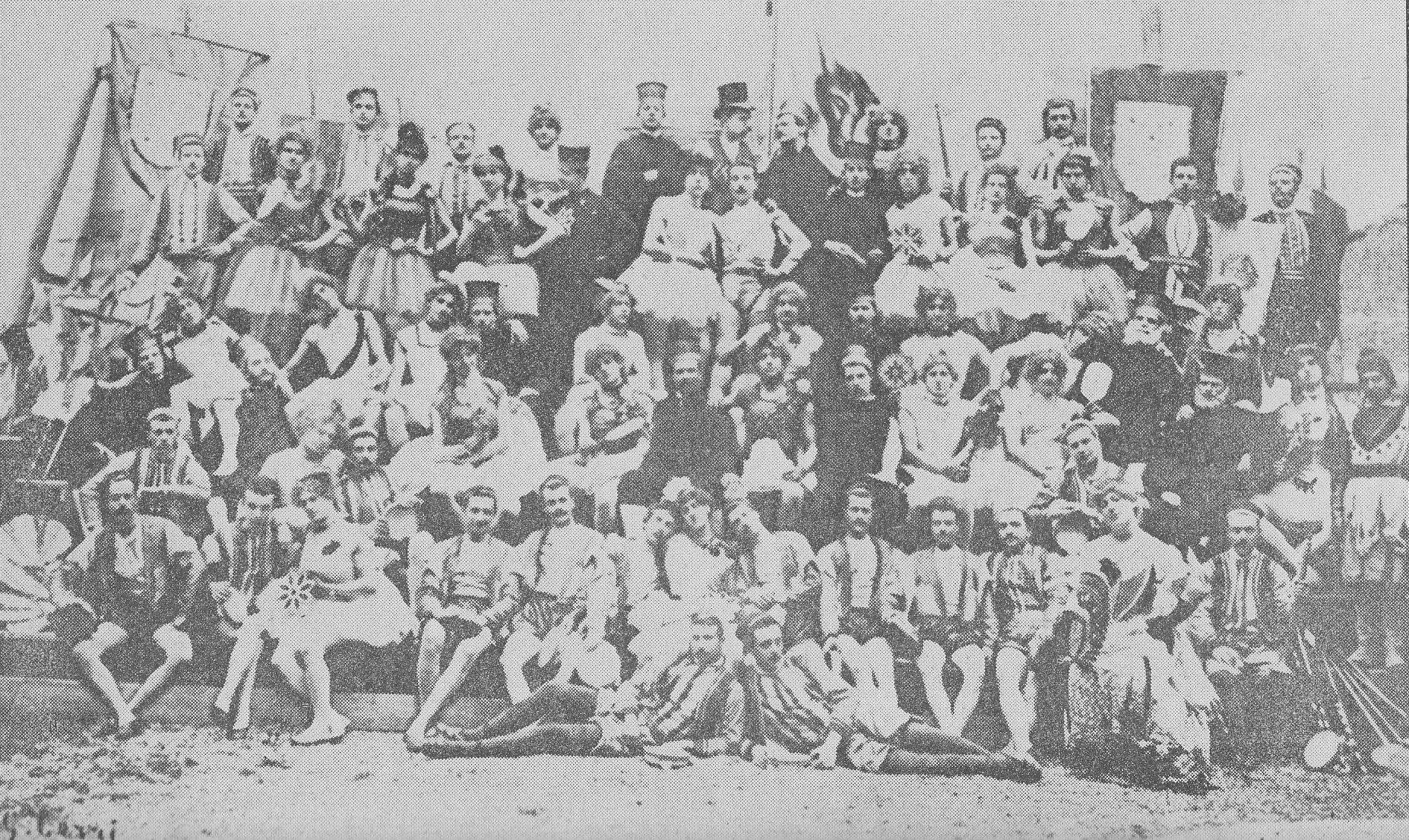 Old students' reunion after 40 years. Pisa, Tuscany, Italy.